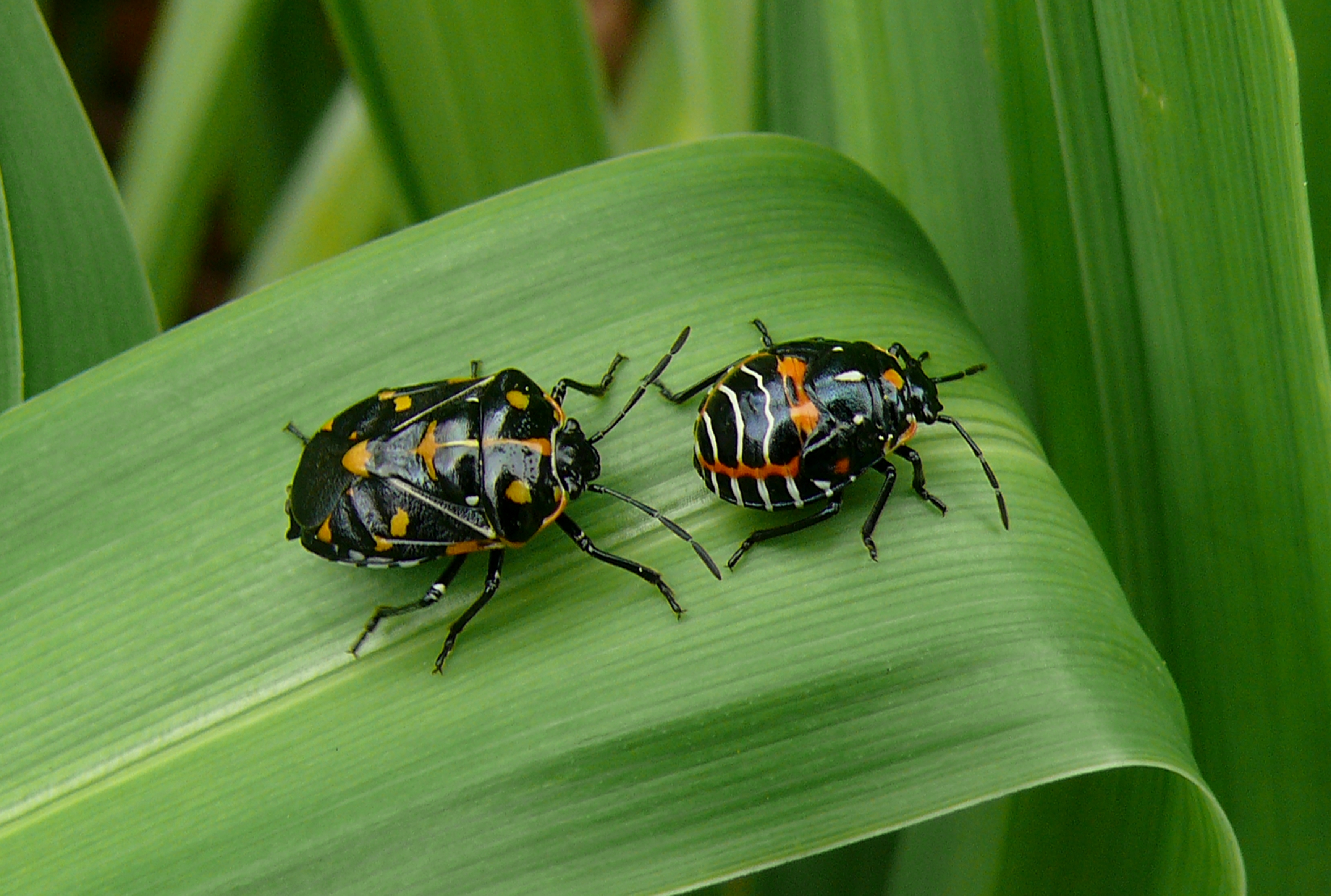 Harlequin Bug (Murgantia histrionica) adult (left) and nymph (right) on a day lily leaf.